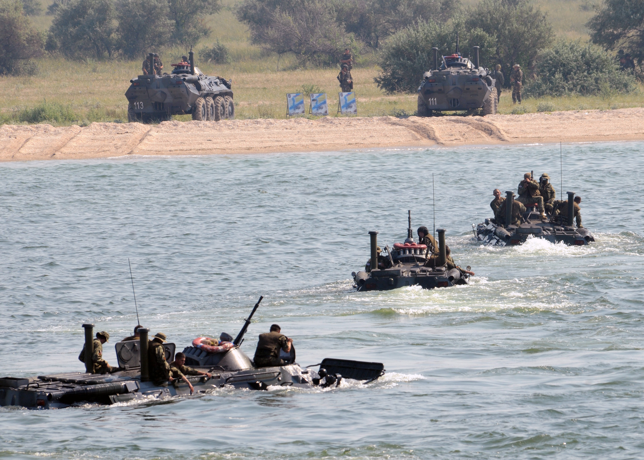 TENDRA, Ukraine (July 15, 2010) Ukrainian marine 1st and 2nd divisions, from Shiroky Lan Air Field, storm the beaches of Tenrda Island (in fact a peninsula) from amphibious assault ships and helicopters during exercise Sea Breeze 2010. The exercise simulated landing on an island overrun by pirates. Sea Breeze is the largest exercise this year in the Black Sea, with 20 ships, 13 aircraft and more than 1,600 military members from Azerbaijan, Austria, Belgium, Denmark, Georgia, Germany, Greece, Moldova, Sweden, Turkey, Ukraine and the U.S. (U.S. Navy photo by Mass Communication Specialist 3rd Class Kristopher Regan/released)